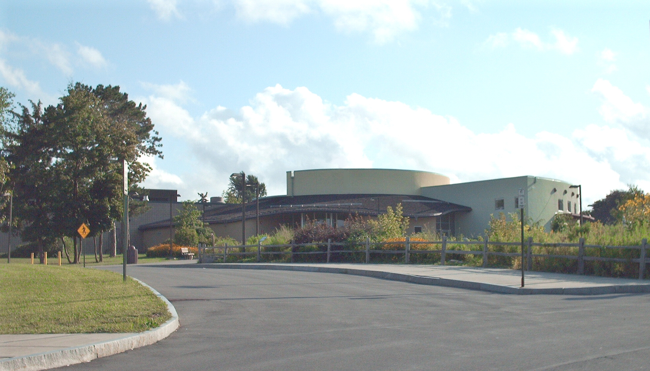 Main entrance of the Rosalind Gifford Zoo, Syracuse, New York